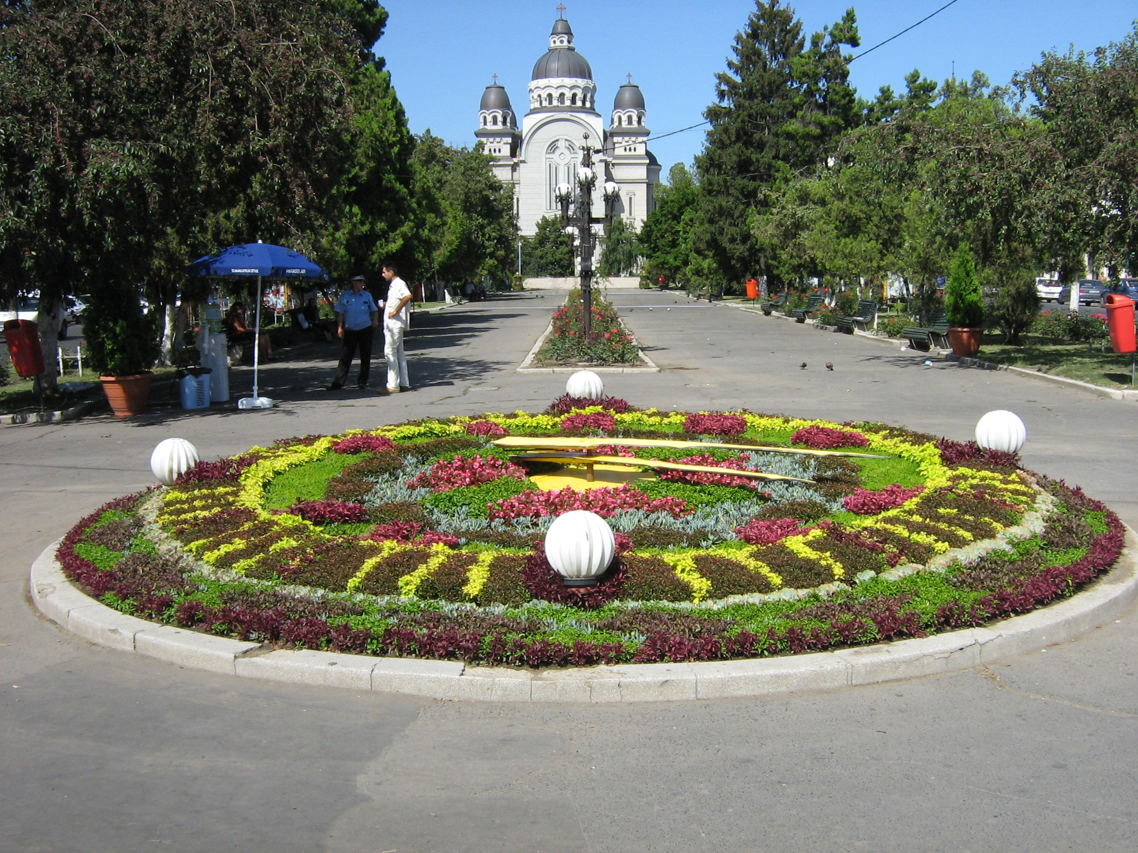 Flower clock in Târgu Mureș, Romania